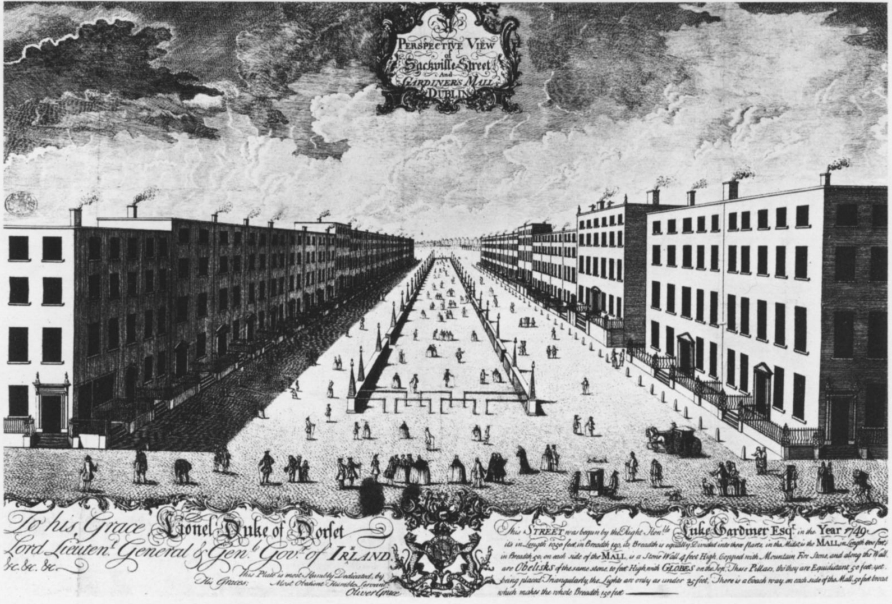 Perspective view of Sackville Street and Gardiner's Mall in Dublin, Ireland, in the 1750s, by Irish architectural surveyor Oliver Grace